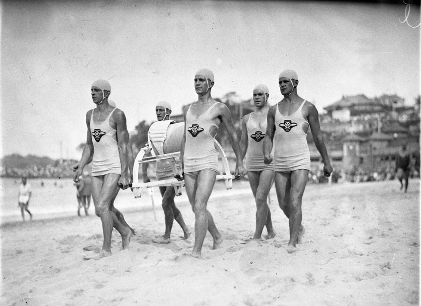 St Kilda Surf Life Saving Team in a rare visit to a Sydney carnival, Manly